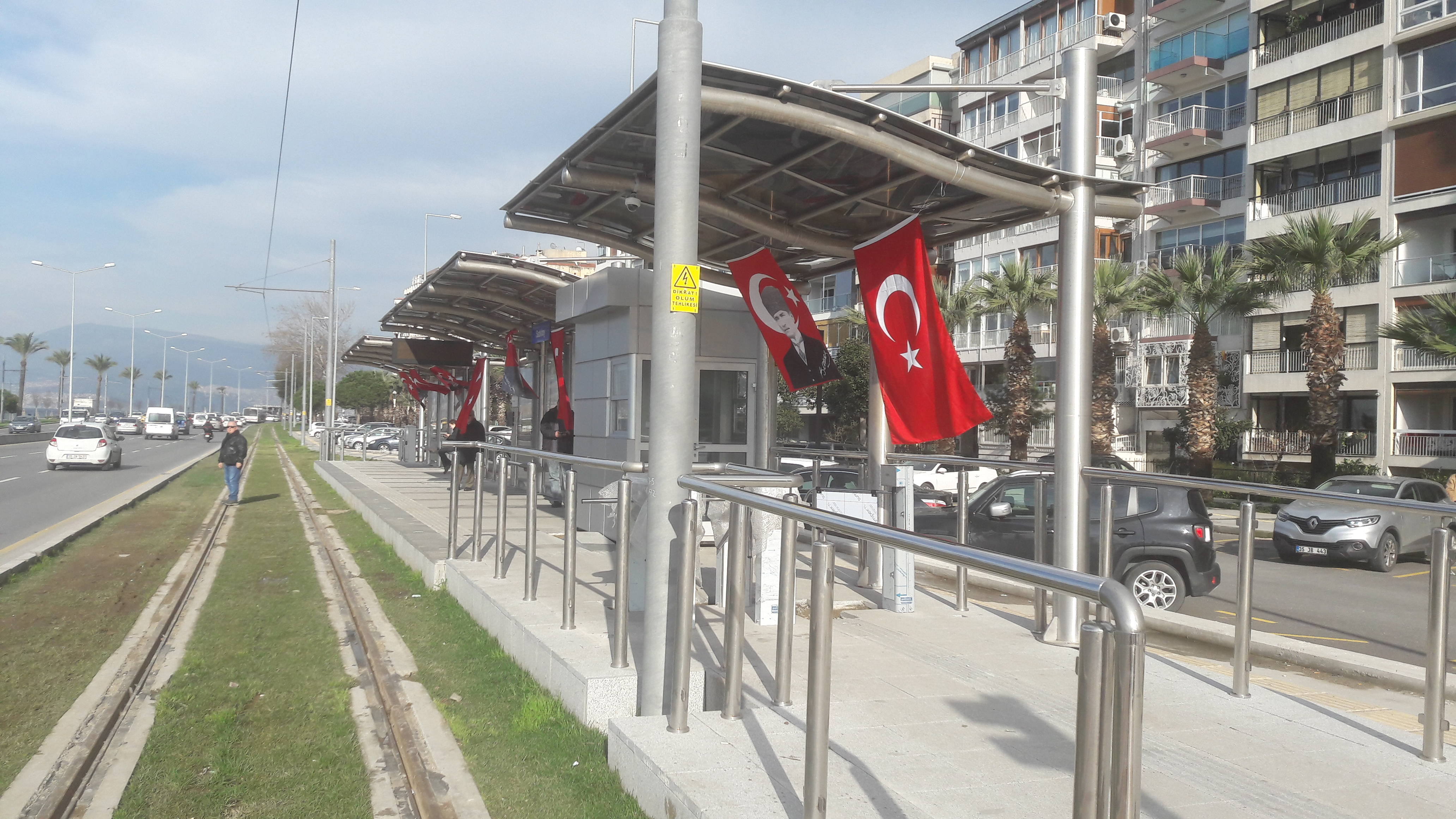 Sadikbey tram station.